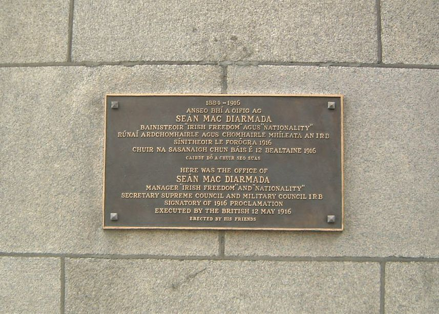 Taken by myself in 2004